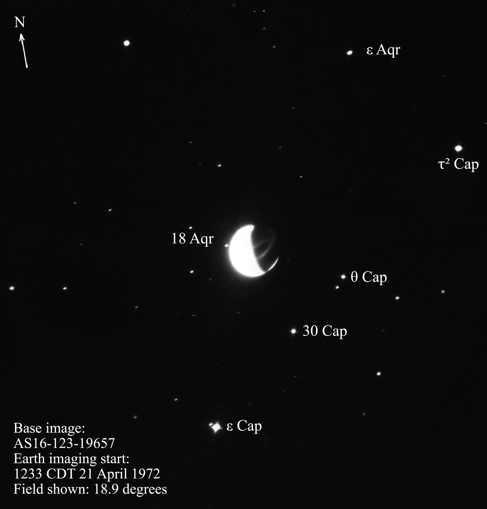 UV photo from Apollo 16 showing Earth with background of stars